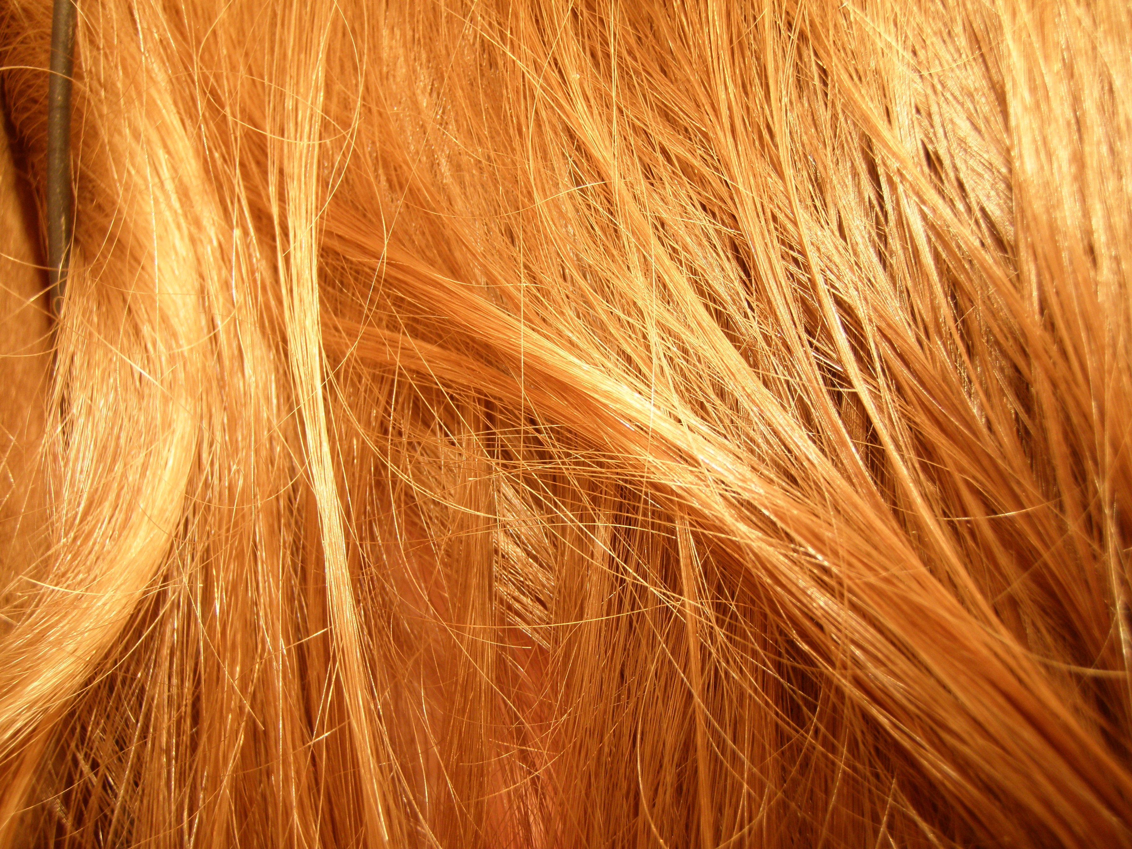 Macro image of blond hair. 19 year old male. Basic shampoos, hard water and dry air. Can't pull this at 25 with any products.